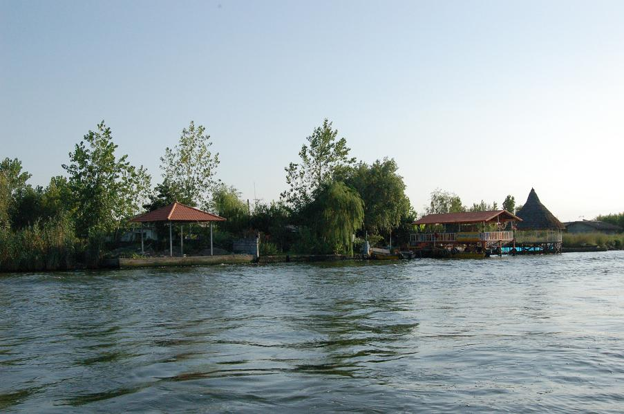 Houses built on the lagoon islands in Anzali